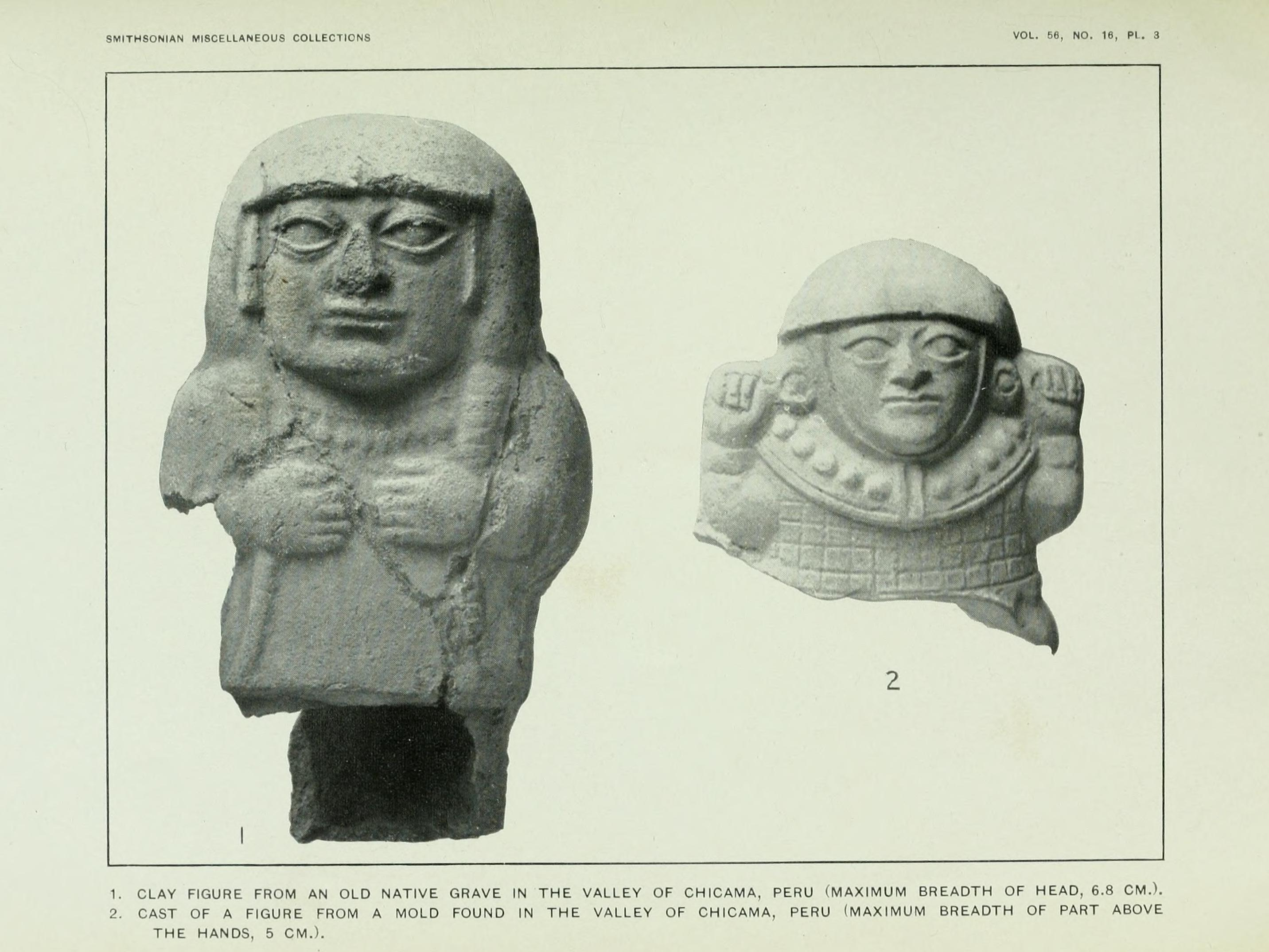 Some results of recent anthropological exploration in Peru, with four plates, by Dr. Ales Hrdlicka ...